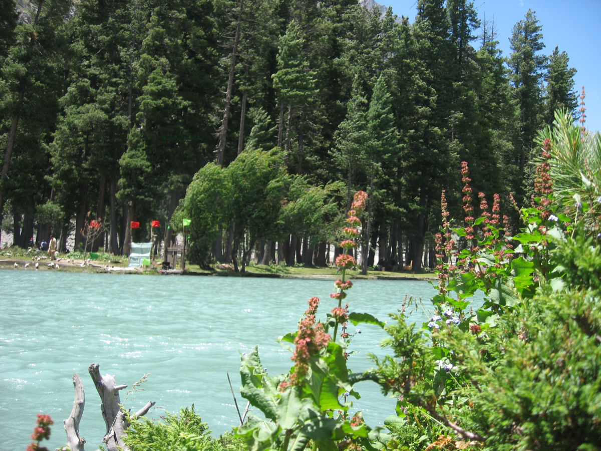 Image:Mahodand lake.jpg Mahudand Lake. About 40kms from Kalam, in the upper Ushu Valley, is one of the best place for fishing. It is a day trip from Kalam, I would suggest you should stay one night. Do visit Lake Saifullah and Naseerullah just 2 km from Mahodand Lake. You can reach by rented 4x4 from Kalam, the charges are around Rs.1000 to Rs. 1500 for a day trip.